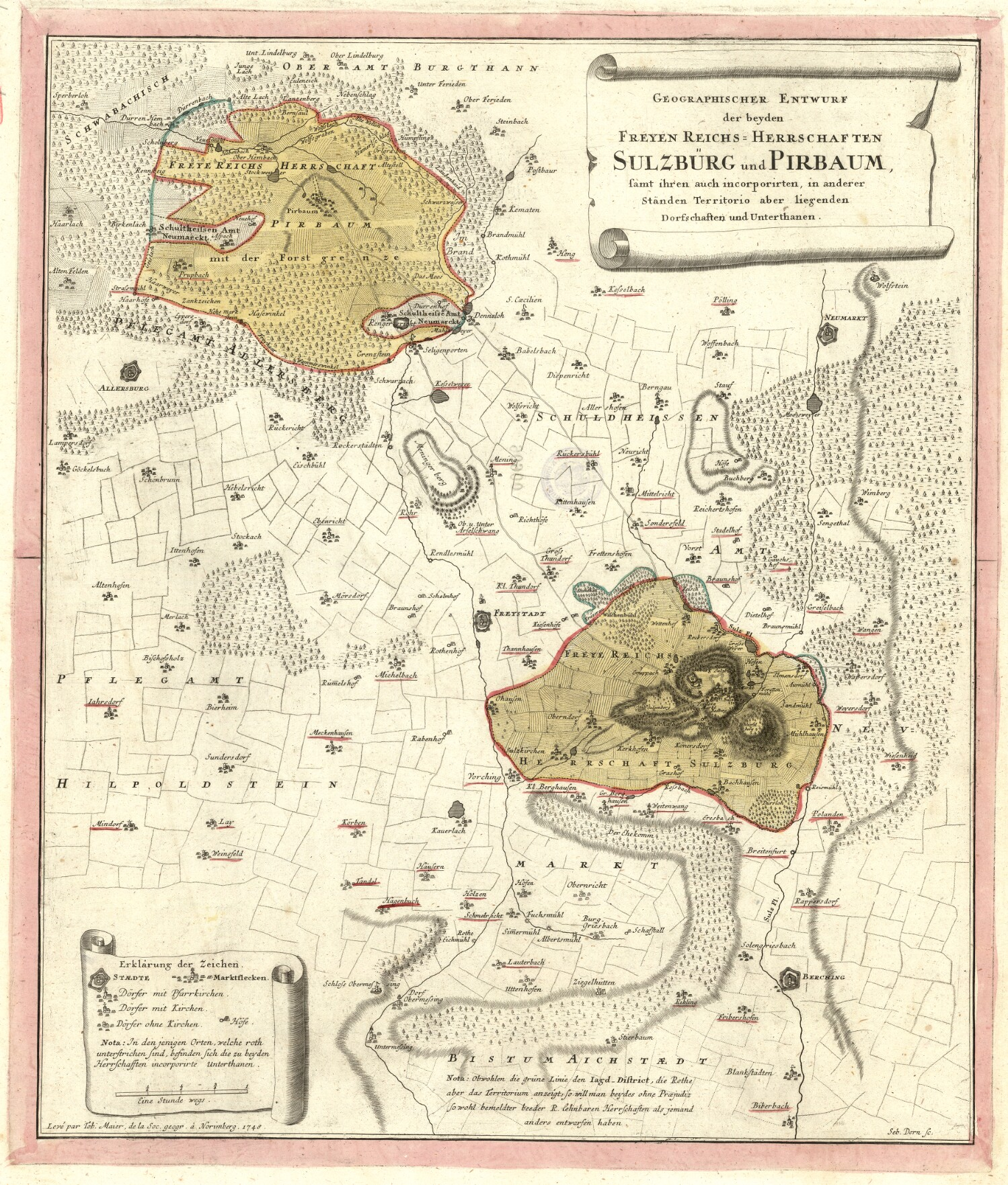 The bavarian county Sulzbürg 1748